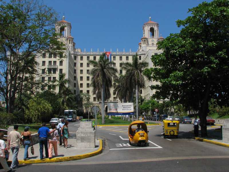 My stuff